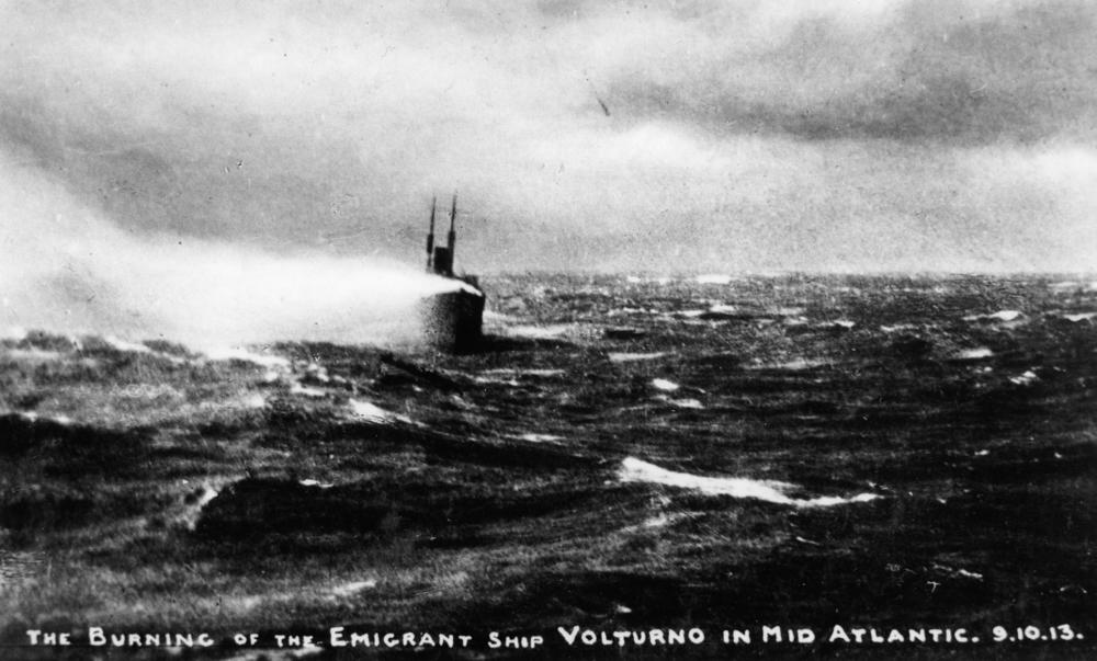 Volturno (ship) On the 9th of October 1913, with 600 emigrants on board, a fire broke out on the Volturno. A call for help was sent and other vessels arrived. The rescue commenced, there was panic on the forward part, then a large explosion, the ship sank and 156 lives were lost. (Description supplied with photograph.).